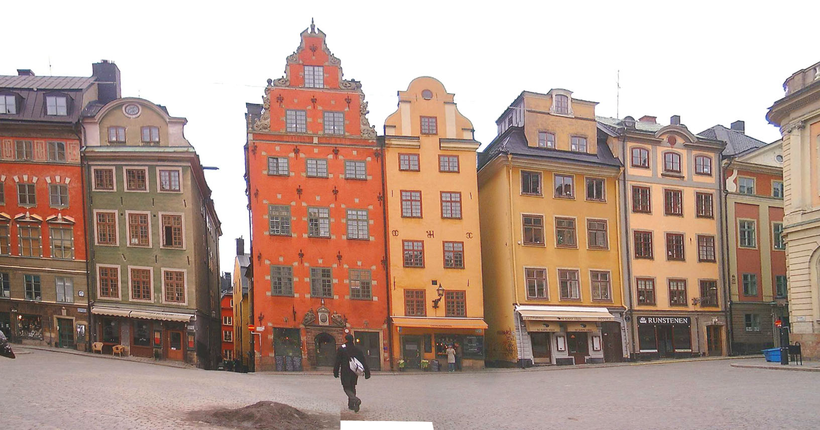 Panorama of west side of Stortorget, Gamla stan, Stockholm. Perspective and colours fixed digitally, composite of three photos (blank space left behind intentionally).